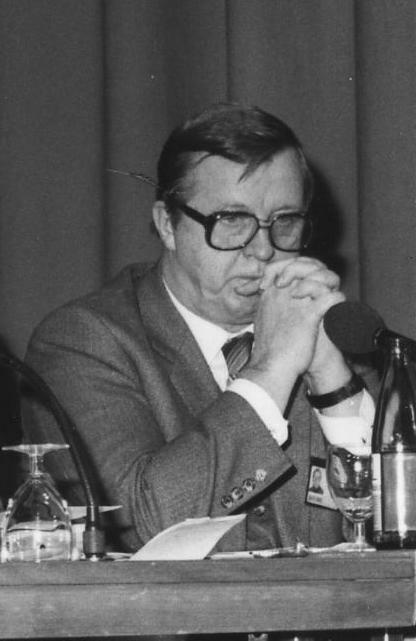 DAVOS/SWITZERLAND, JAN 1983 - Kalevi Sorsa, Prime Minister, Finland captured during the session “New Dimensions of Leadership for Today’s Complex World” at the European Management Symposium, the predecessor of the World Economic Forum in Davos in 1983.